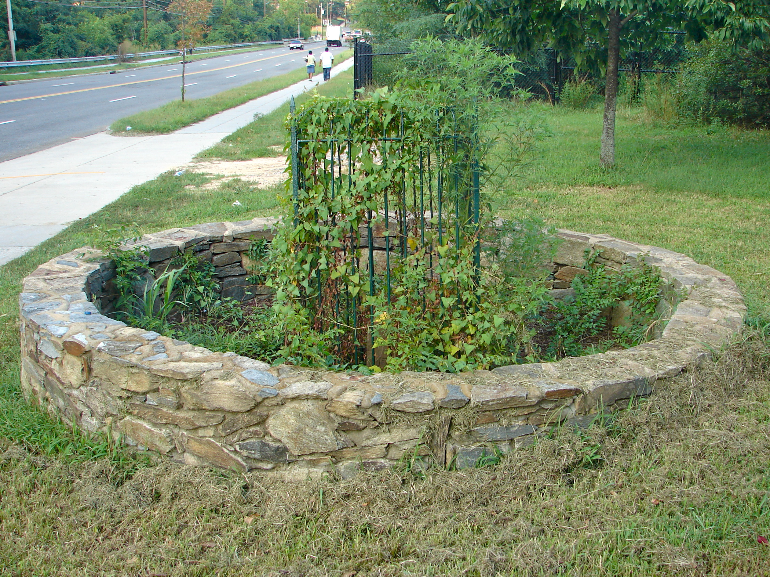 Southeast No. 5 Boundary Marker of the Original District of Columbia on the NRHP since November 1, 1996, Located 280 ft. NE of jct. of Southern Ave. and the northern end of Valley Terrace. Also just north of the Southern Avenue Metro Station - but you have to walk south first to go around the fence and get on Southern Ave. Somebody might want to photograph this in the wintertime, when the stone is visible through the weeds!